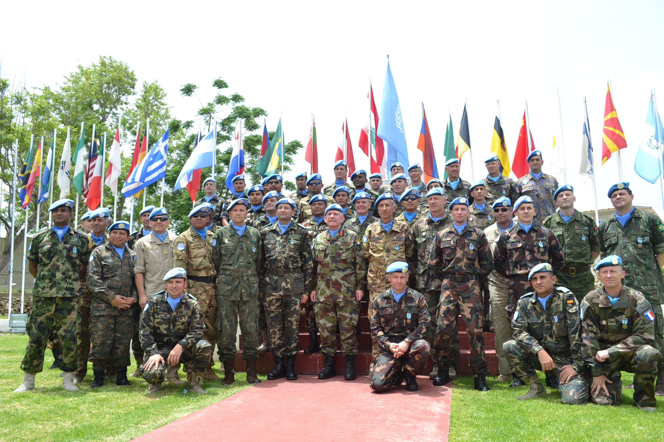 Celebrating International UN Peacekeepers Day. Peacekeepers from 37 national contingents in UNIFIL were joined by reps from local authorities, officers of the Lebanese armed and security forces and the international community at a commemorative ceremony.